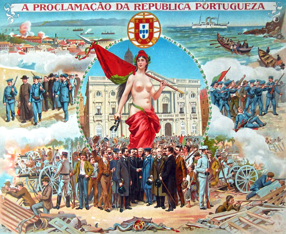 Colour lithography by artist Cândido da Silva depicting the revolutionary events on the night of 3 October 1910 that led to the proclamation of the Portuguese Republic.